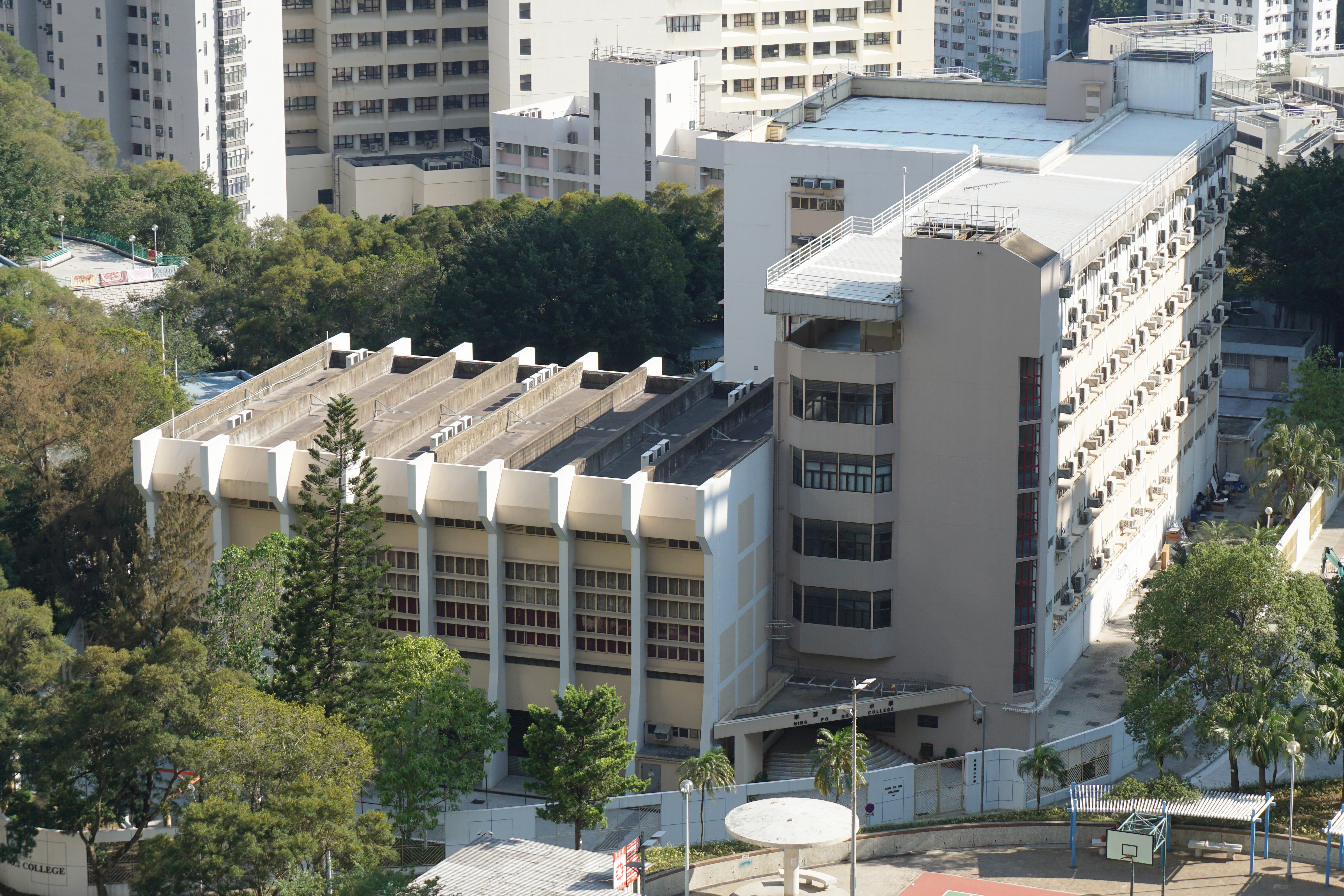 Ning Po No.2 College in Sau Mau Ping, Hong Kong.